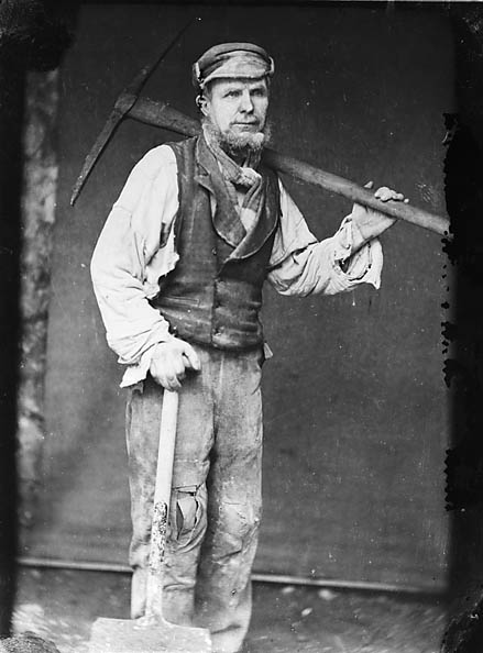 1 negative : glass, wet collodion, b&w ; 11 x 8.5 cm.